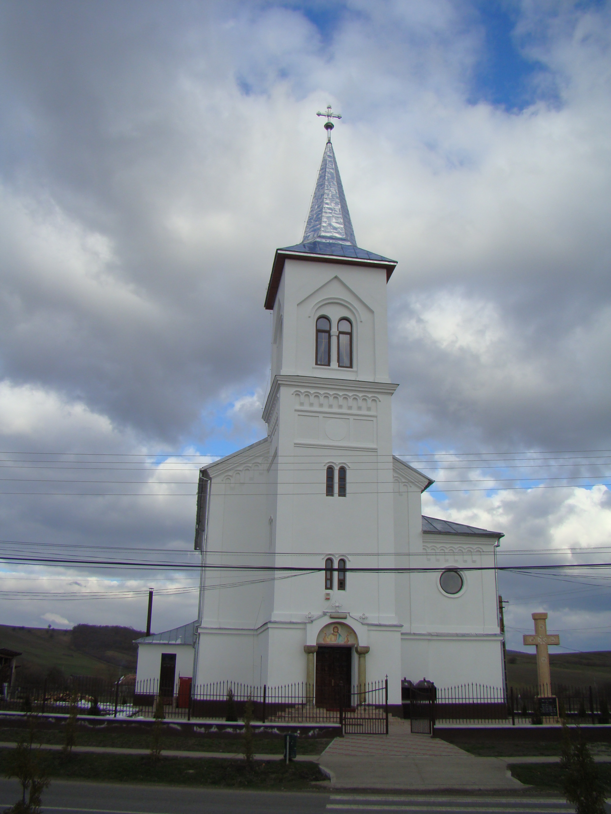 Lutheran church in Domnești, Bistrița-Năsăud county, Romania